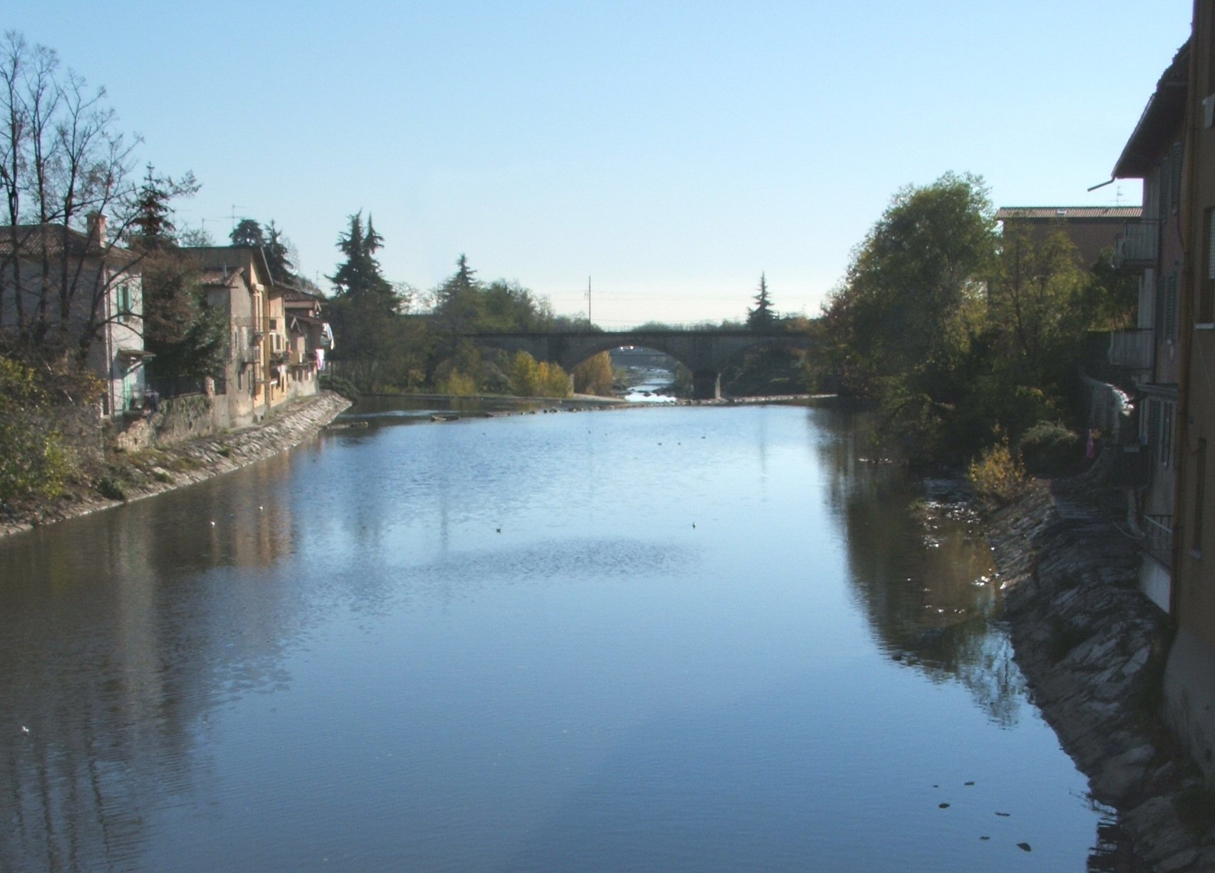 Serio River in Seriate (Bergamo) - Lombardy - Italy